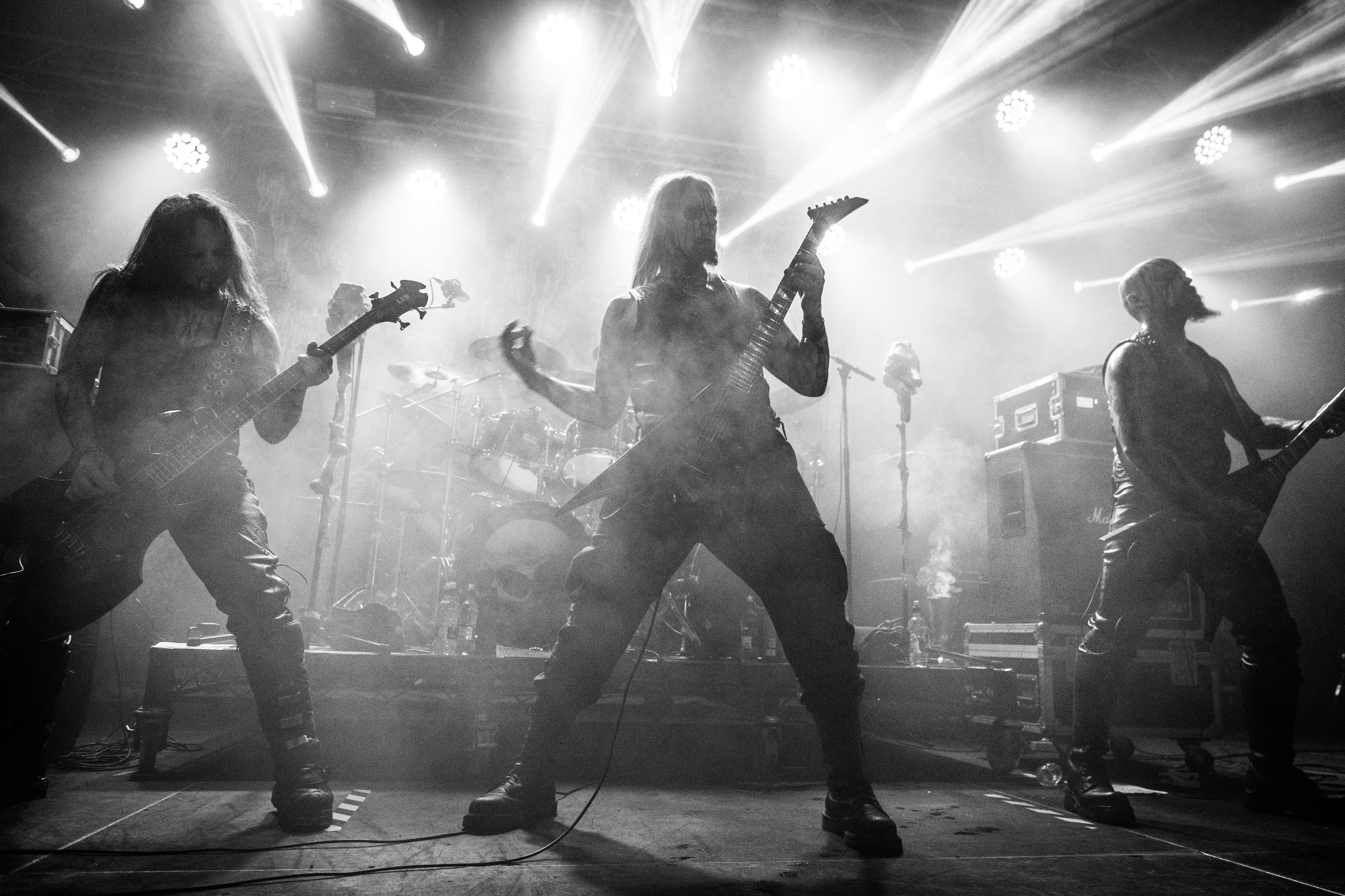 Belphegor performing live at Eistnaflug 2016